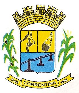 Myself